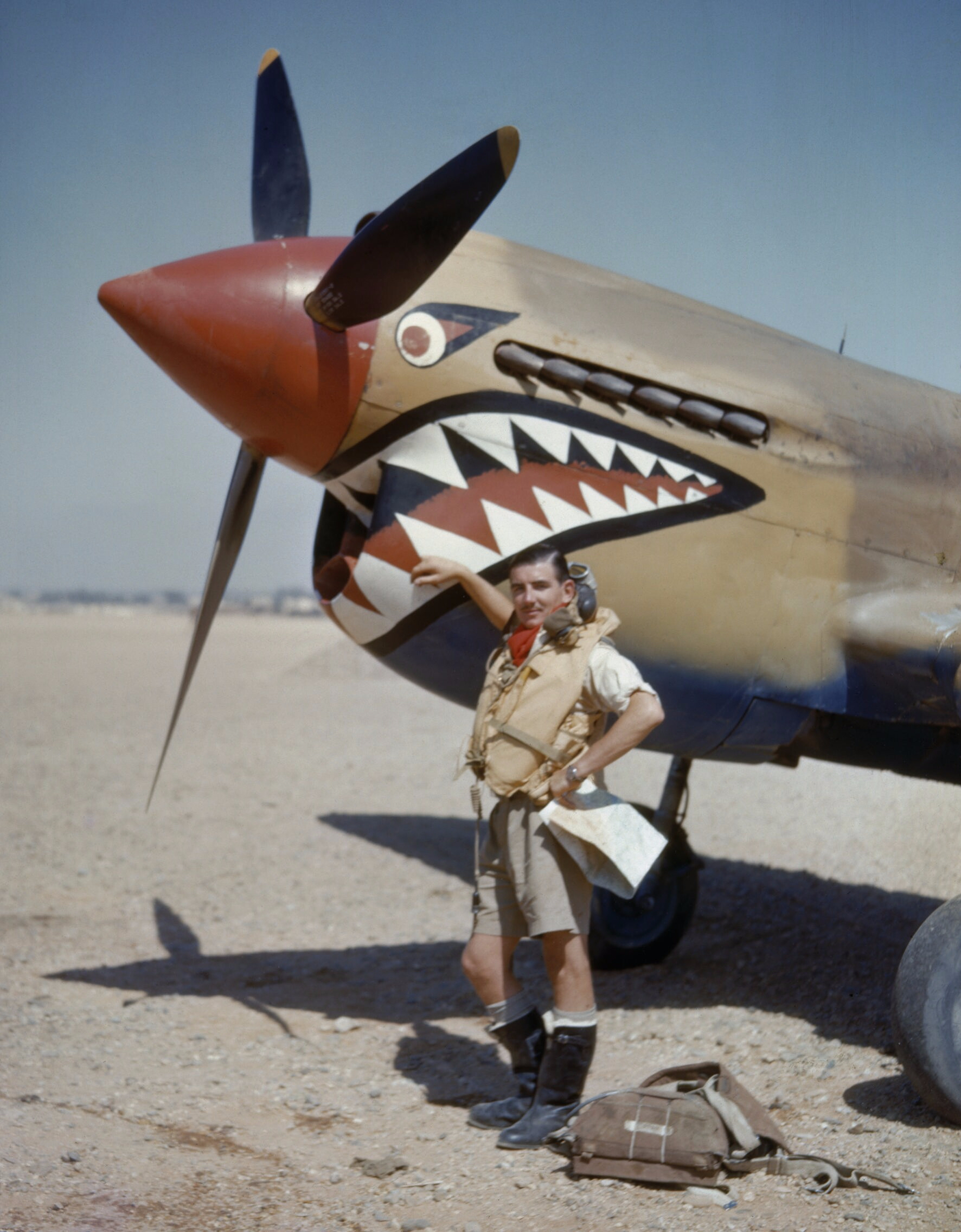 Flight Lieutenant A R Costello of No. 112 Squadron standing by his Curtiss Kittyhawk Mk I at Sidi Heneish, Egypt, April 1942. Flight Lieutenant A R Costello of No. 112 Squadron RAF standing by the nose of his Curtiss Kittyhawk Mark IA at Sidi Heneish, Egypt.